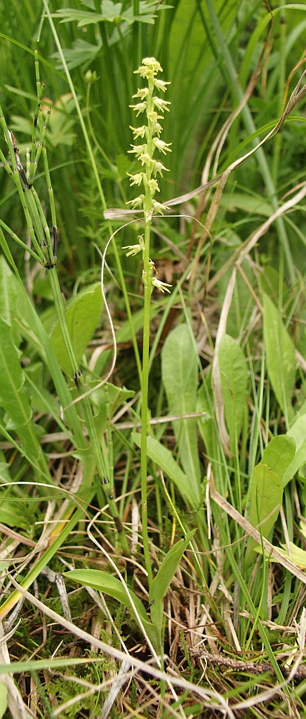 Herminium monorchis, Tannheimer Tal, Austria